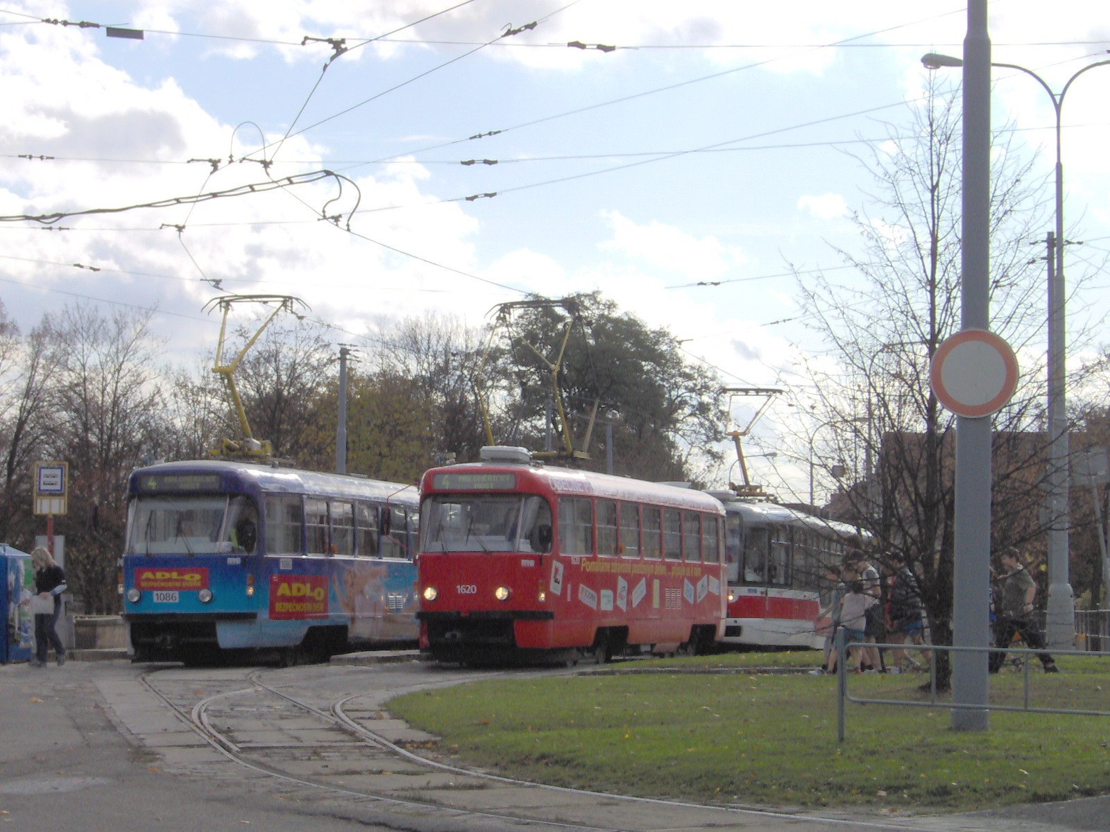 Tram loop Masarykova čtvrť, náměstí Míru in Brno, Tatra K2P and T3R.P trams